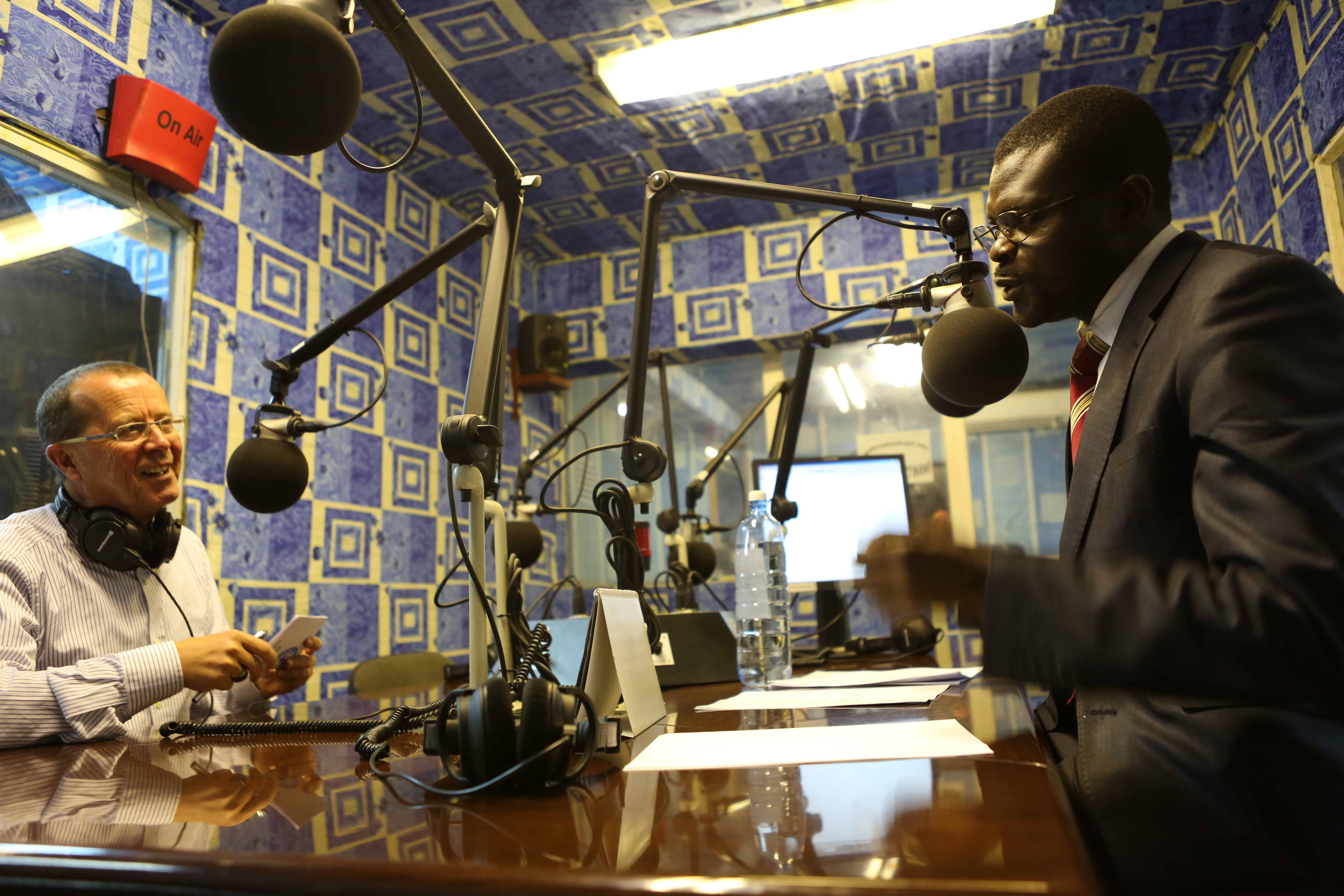 SRSG Martin Kobler appearing in a talk show on Radio Okapi, the UN-sponsored radio in the D.R. Congo. During 60 minutes, Mr. Kobler responded directly to live questions from callers around the country on Friday, 10 January 2014. It was the first participation of a SRSG in an interactive programme since the creation of Radio Okapi almost 12 years ago. Photo: MONUSCO/Myriam Asmani.